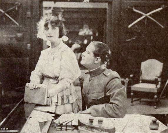 Still from the American war drama film Miss Jackie of the Army (1917) with Margarita Fischer and Jack Mower, on page 27 of the December 15, 1917 Exhibitors Herald.